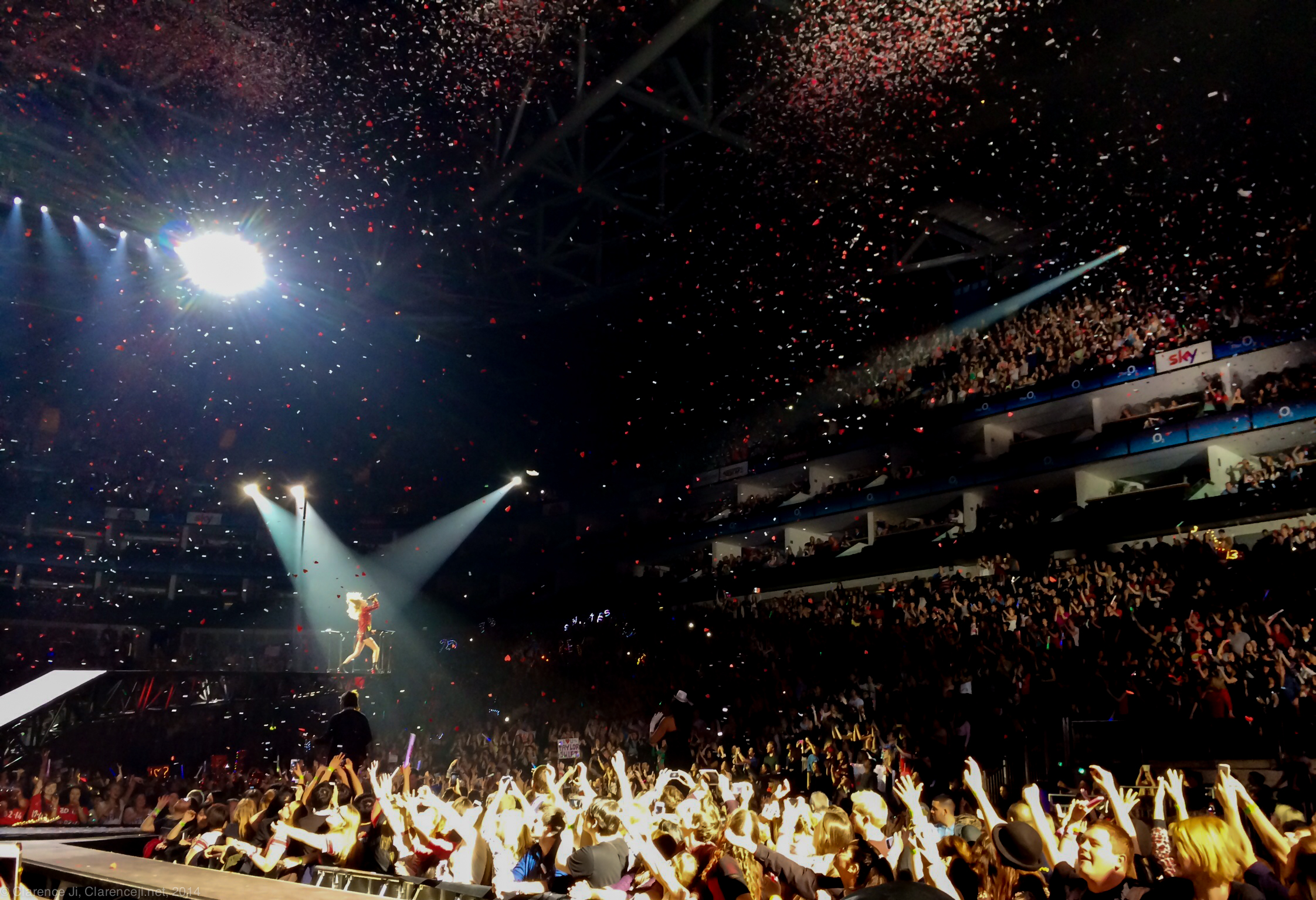 Red Tour London